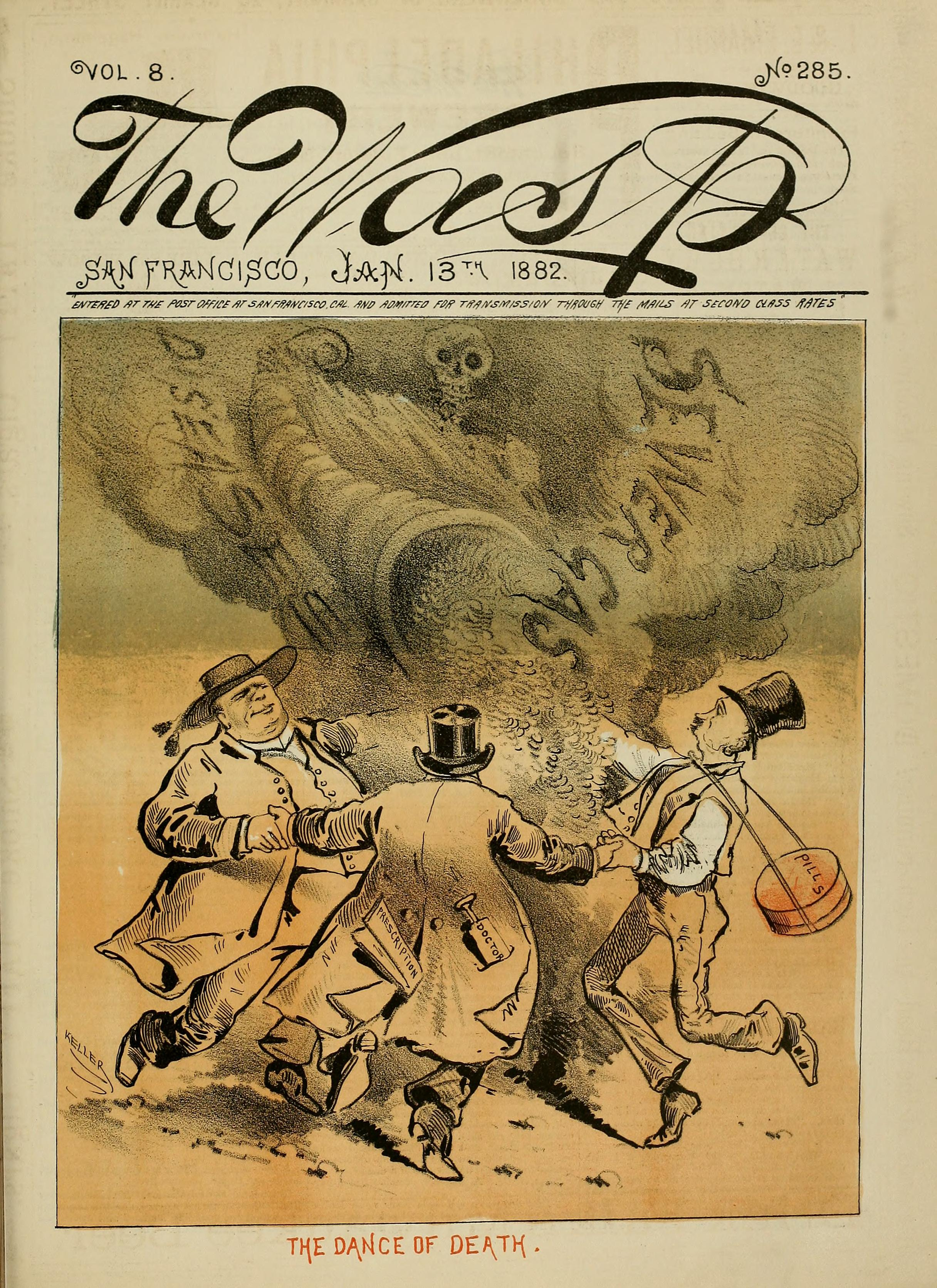 The Dance of Death. A trio of figures representing physicians and prescription pills dances around a column of smoke containing a deathly figure dispensing a cornucopia and the words "Diseases" and "Sewer gas"